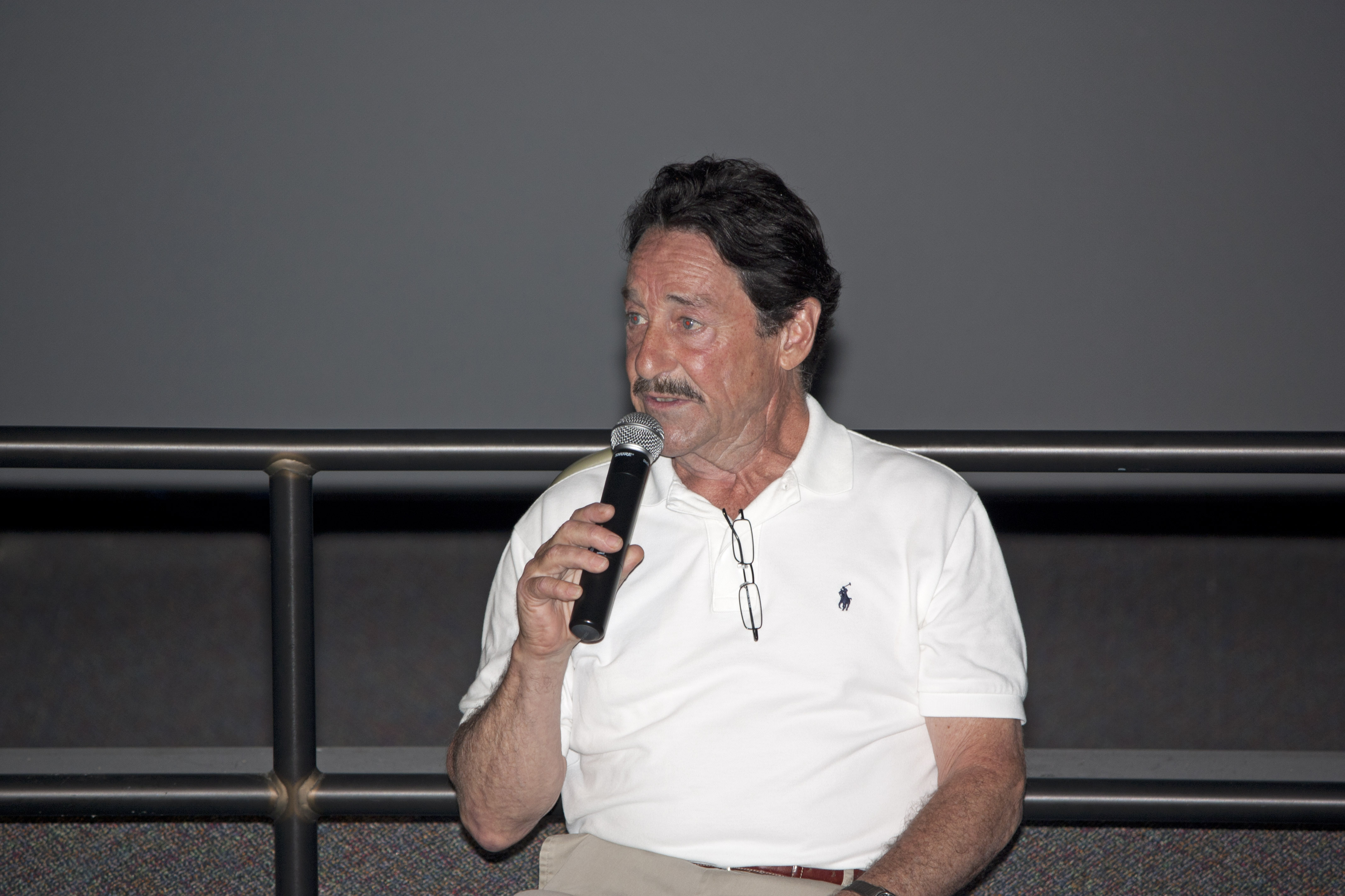 Peter Cullen speaks at the Kennedy Space Center in 2011